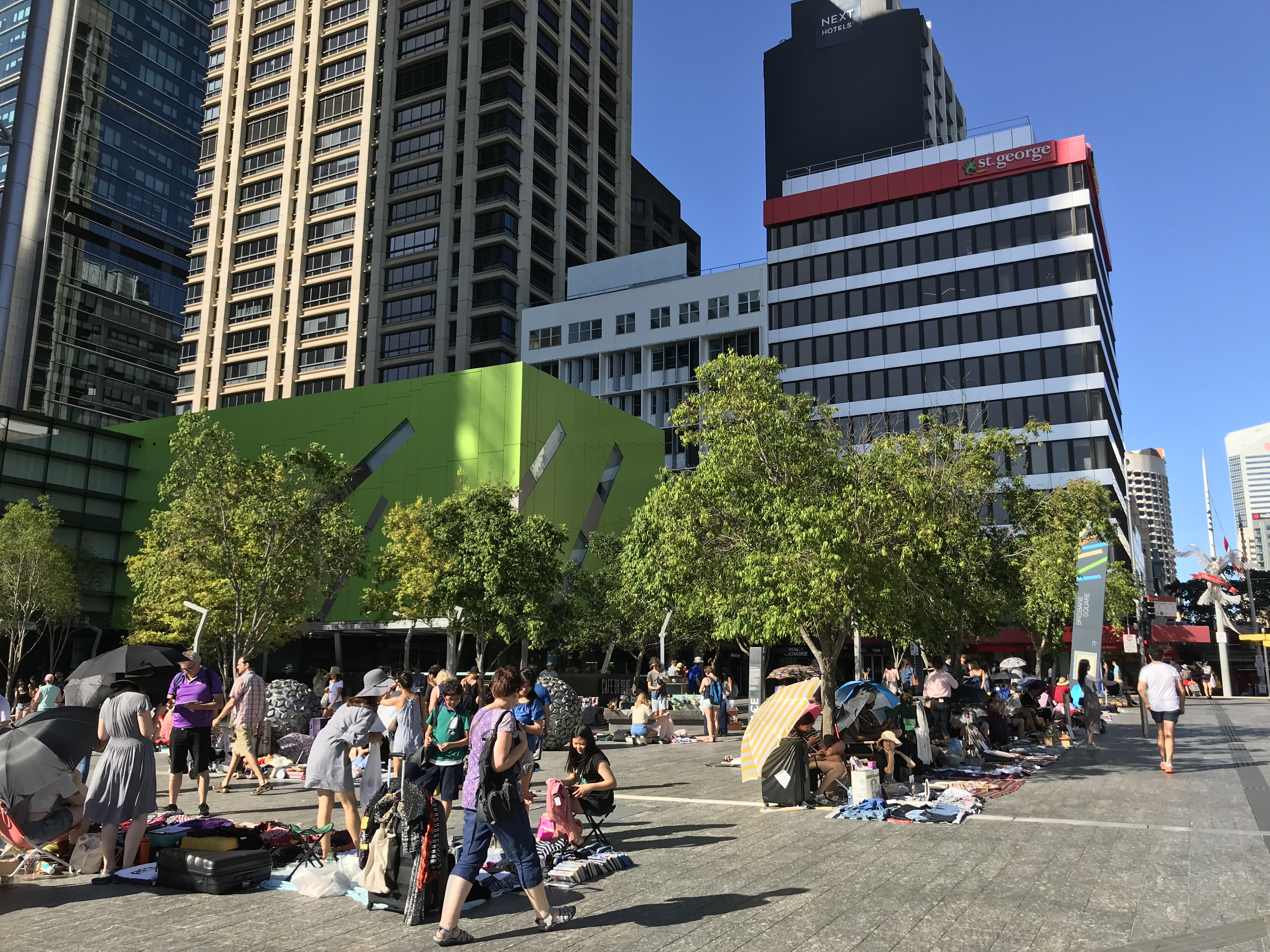 Reddacliff Place adjacent to Brisbane Square building, Brisbane, Queensland